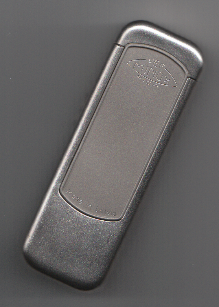 Original Rīga Minox showing Latvia production markings.